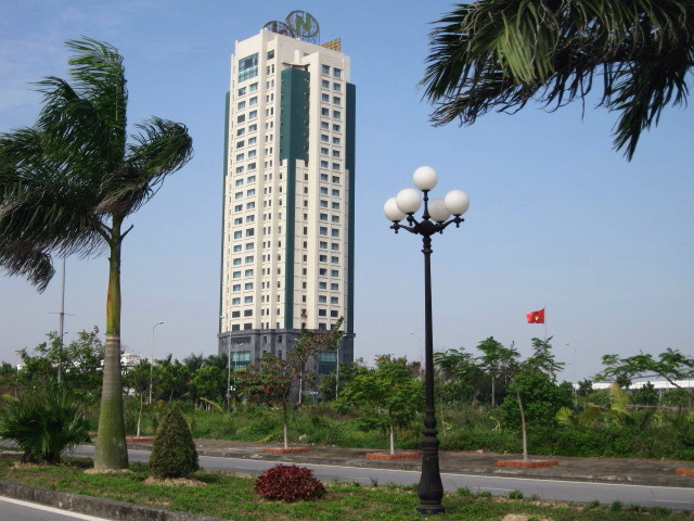 Hải Dương city, Vietnam